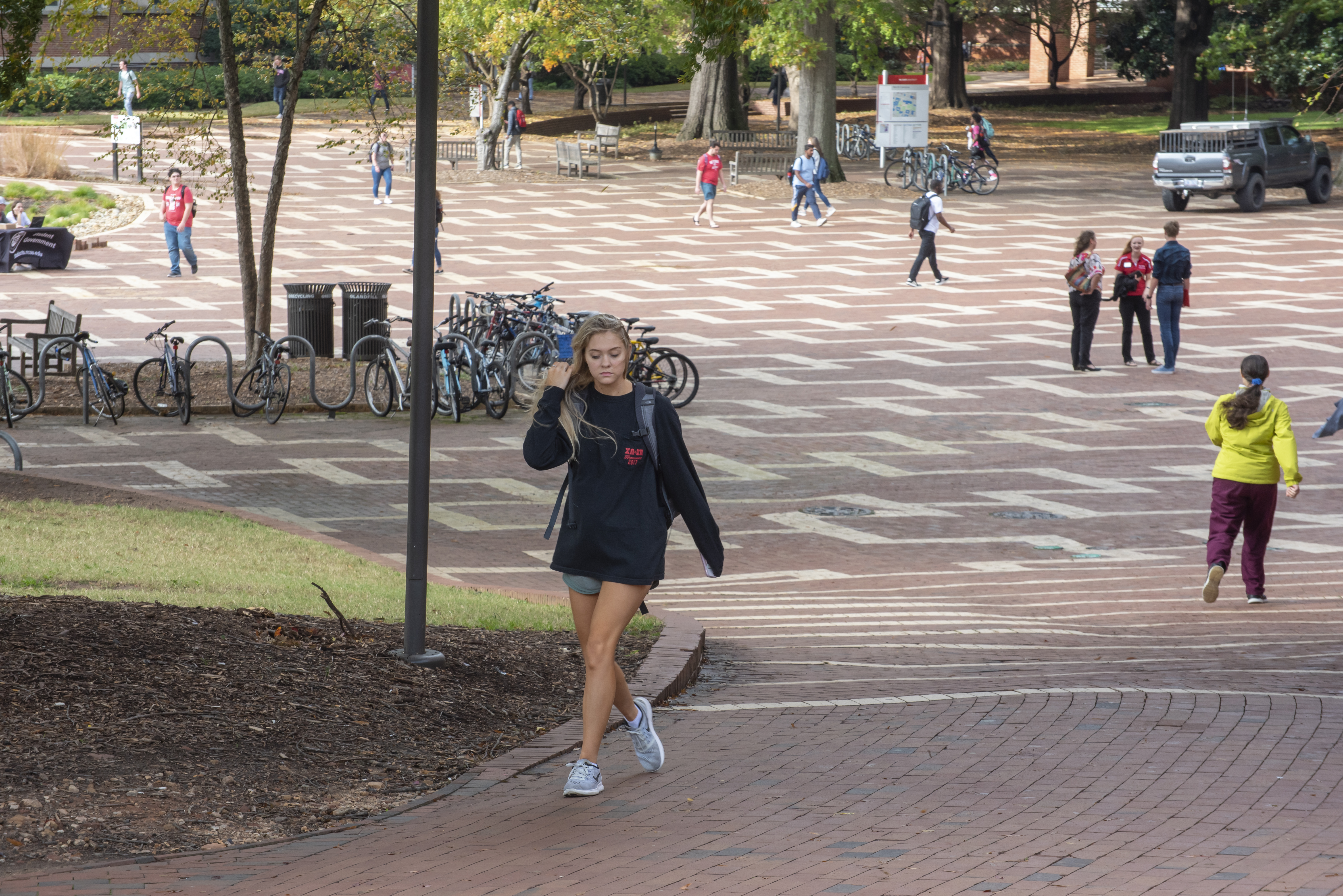 College students walk through the brickyard between classes at North Carolina State University.